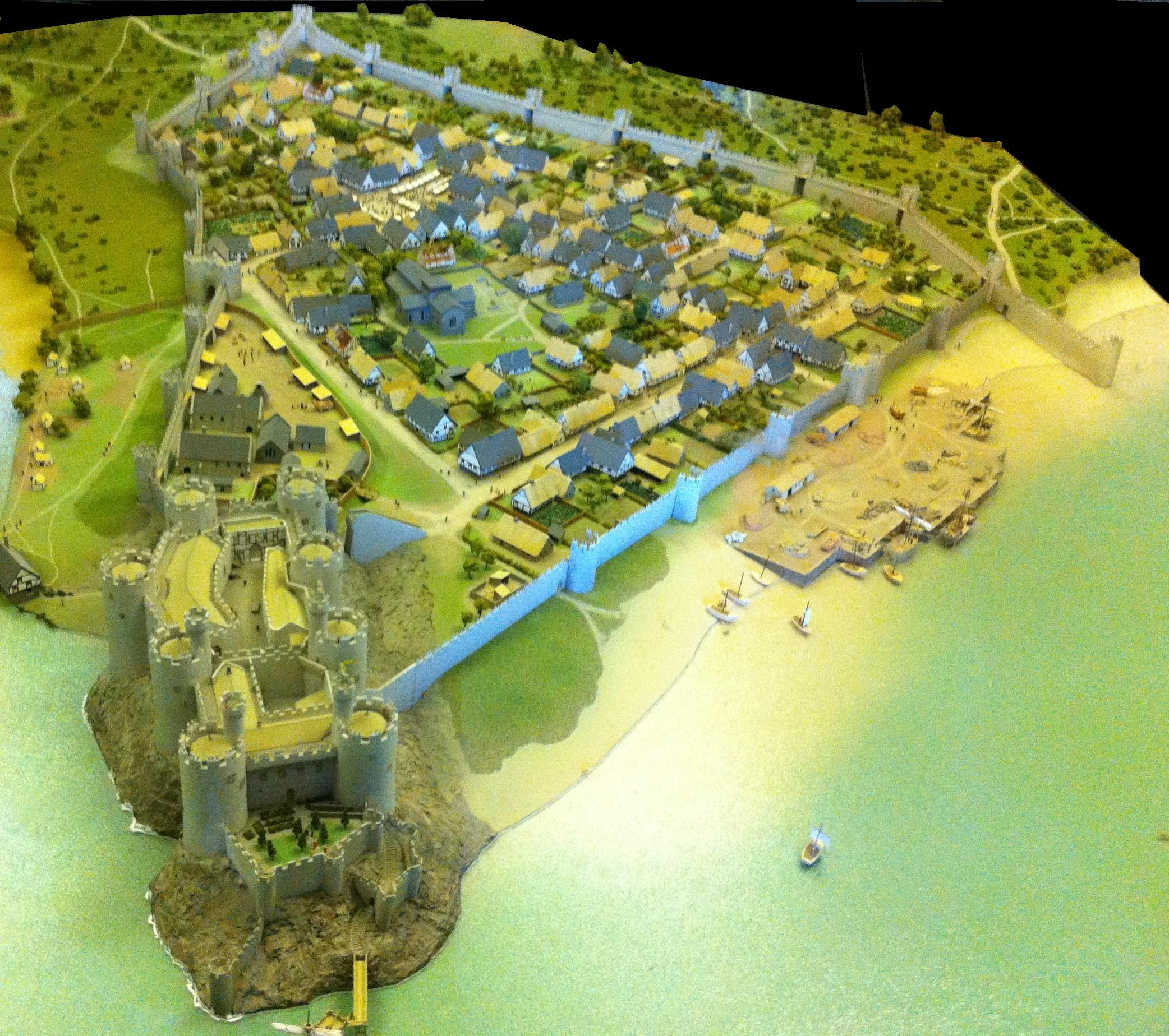 Reconstruction of Conwy town and castle in early 14th century